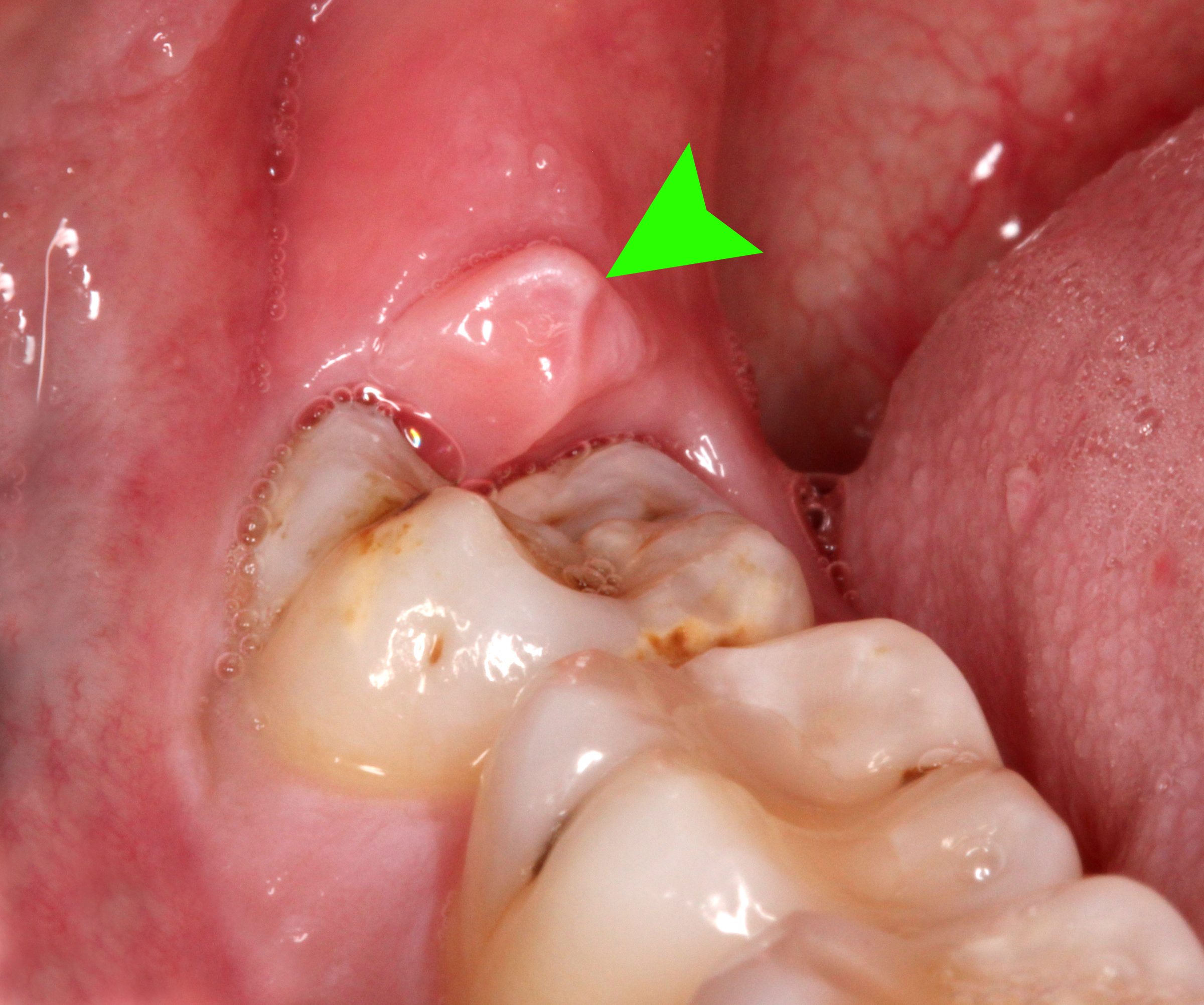 Pericornitis tooth #4.8